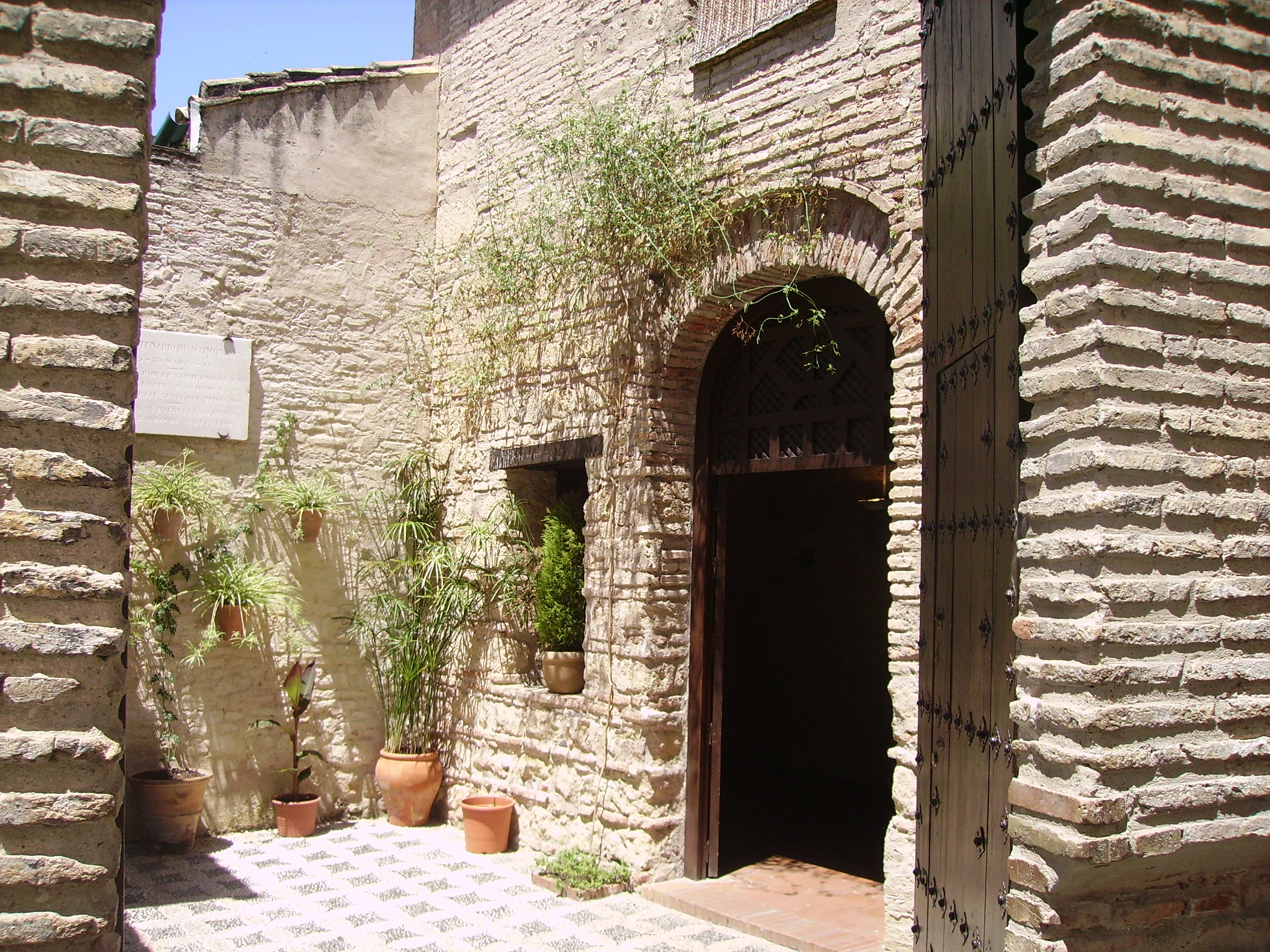 Patio of the Synagogue of Córdoba, in Córdoba (Spain).